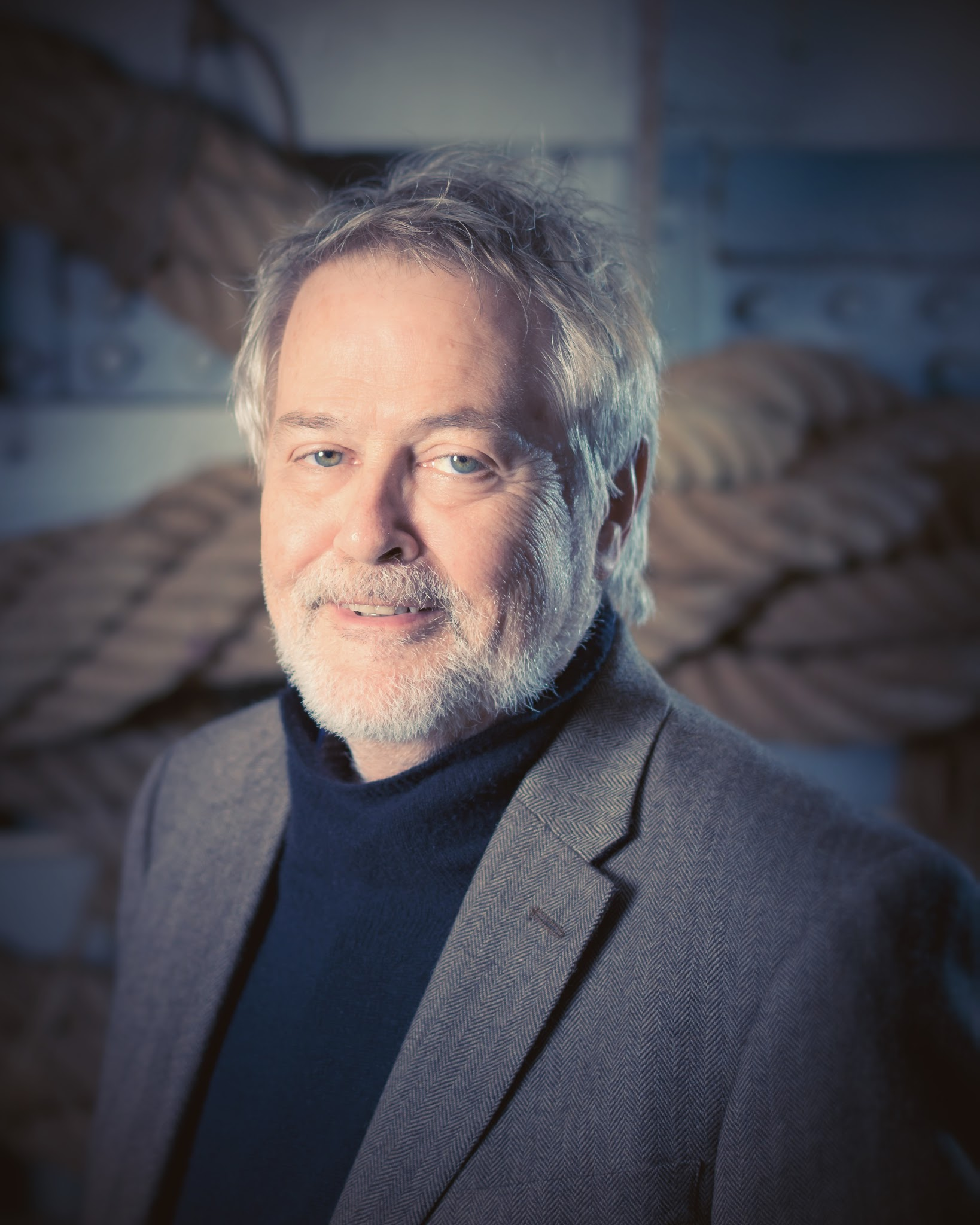 American editor, critic and scholar Gary K. Wolfe at Archipelacon 2015, where he was one of the Guests of Honour.